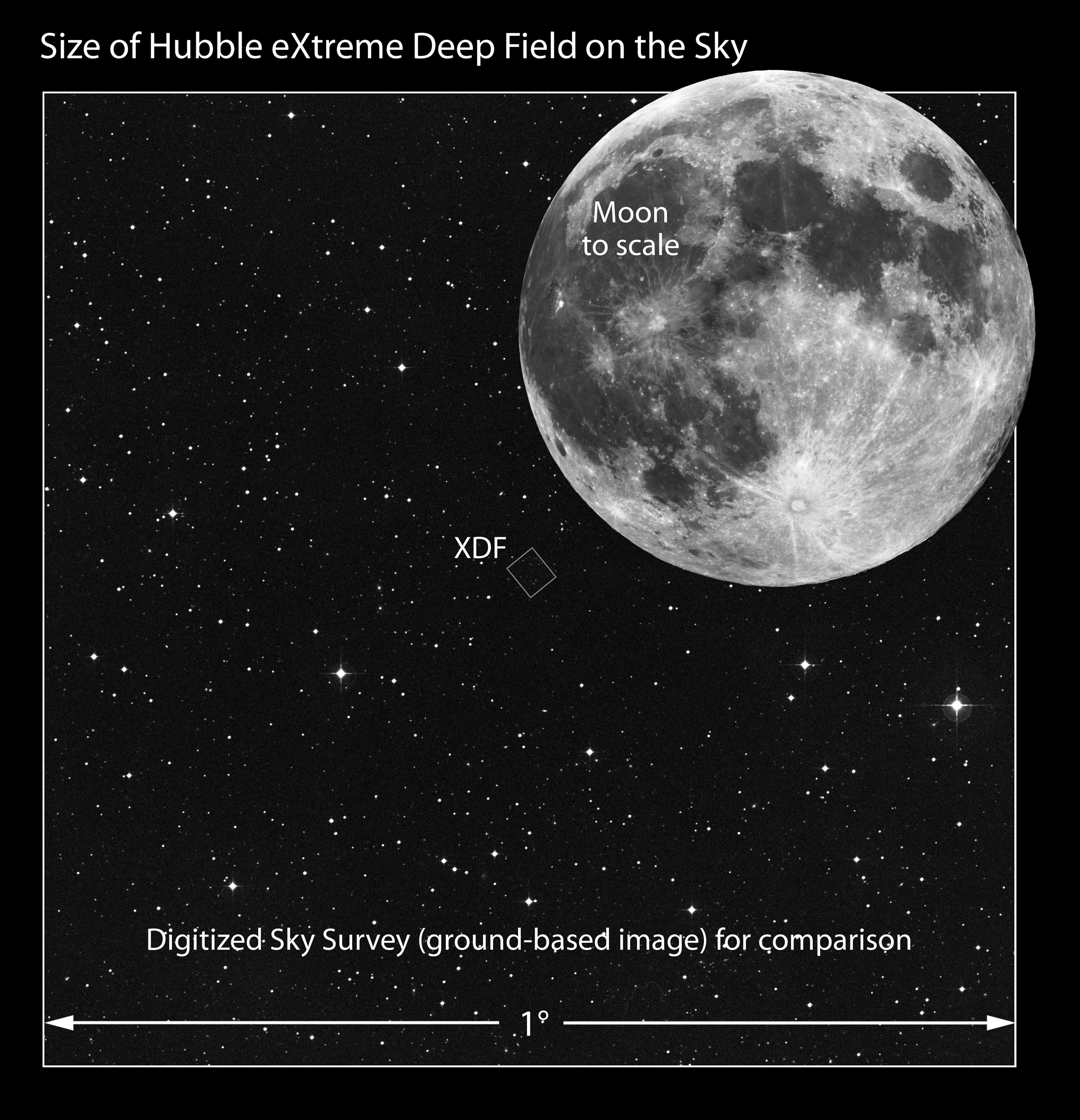 A comparison of the angular size of the XDF field to the angular size of the moon.